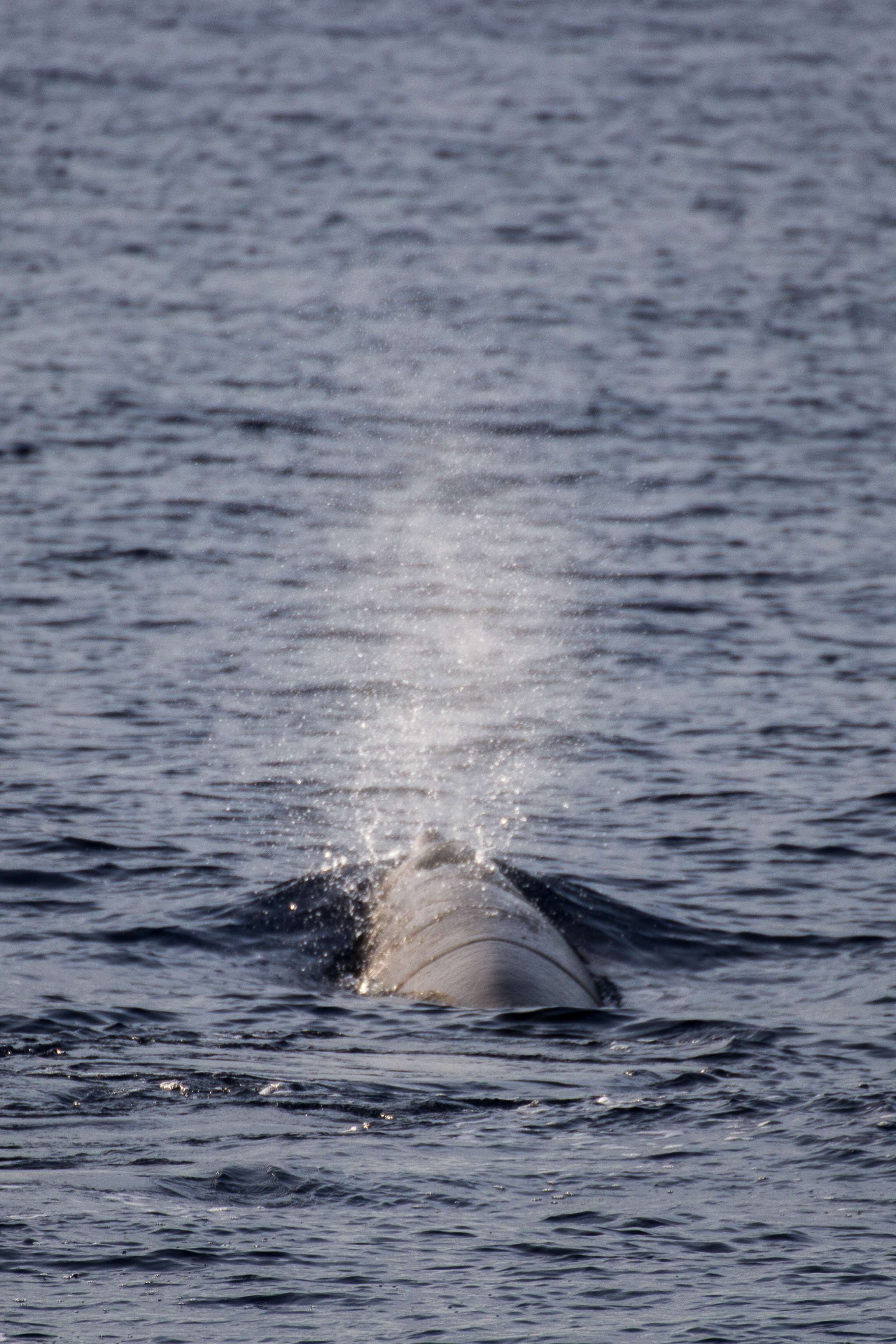 The cuvier's beaked whale (ziphius cavirostris) is a shy odontocete, member of the family of the Ziphiidae. Yet recently in the Ligurian sea it has been encountered more often.